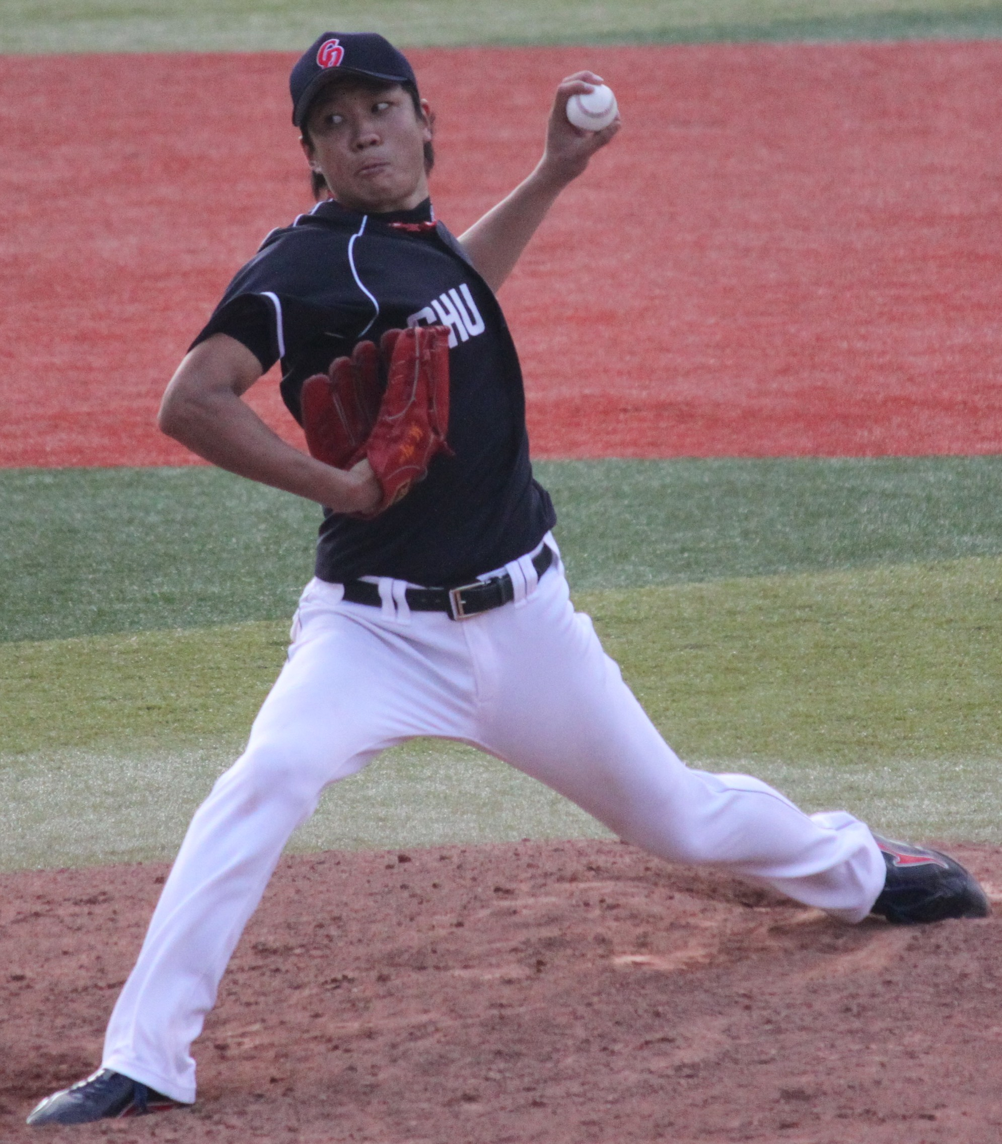 Yudai Ono, pitcher of the Chunichi Dragons, at Yokohama Stadium.